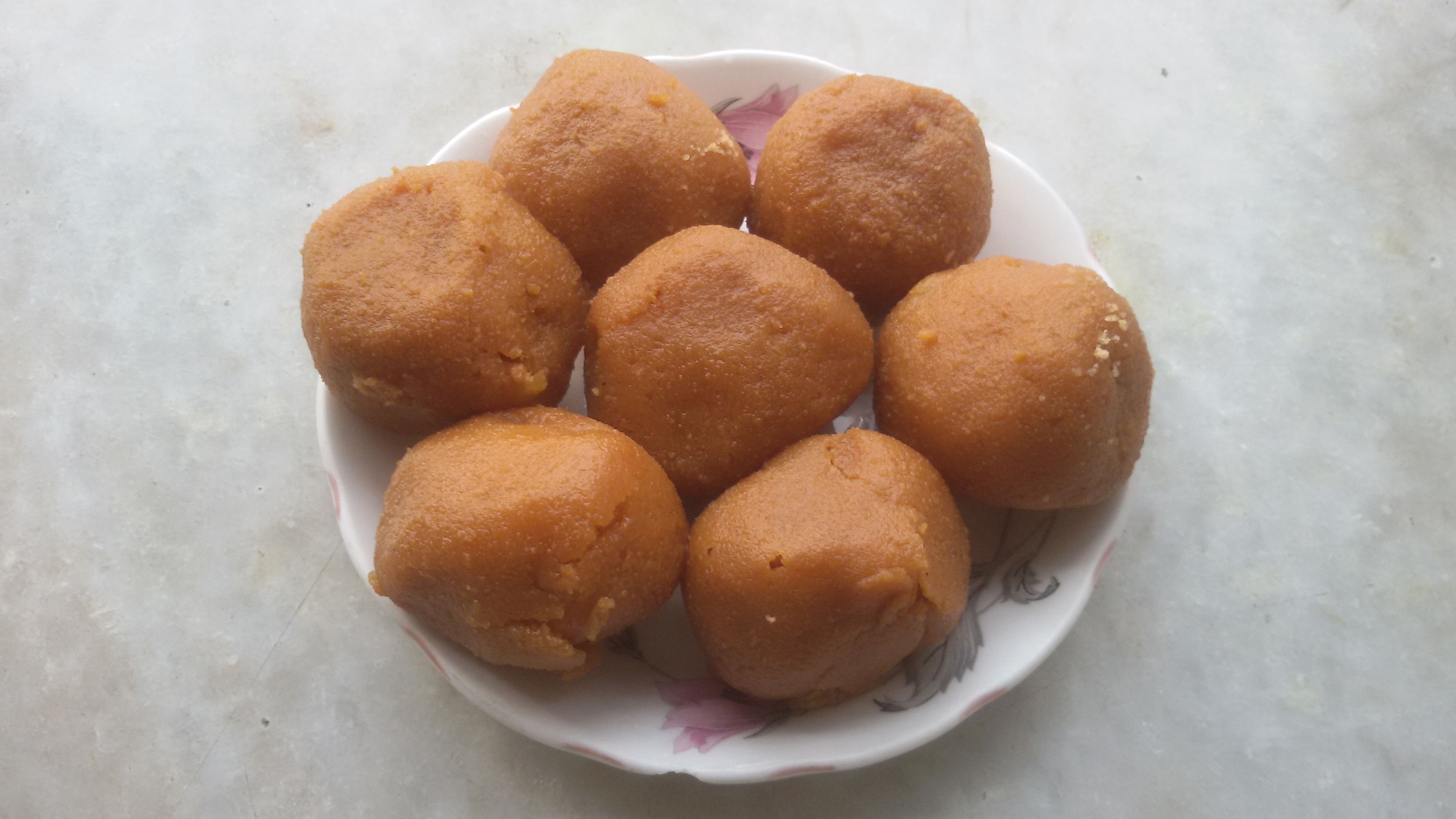 This is the image of kheermohan, a popular sweetmeat in the border region of Hooghly District and Burdwan District of West Bengal.